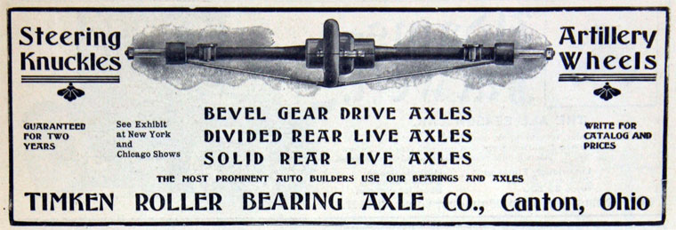 Timken Roller Bearing Axle Company ad for rear axles and artillery wheels, January, 1905